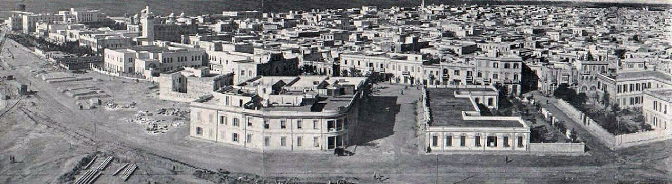 Panorama of Benghazi downtown(1935).